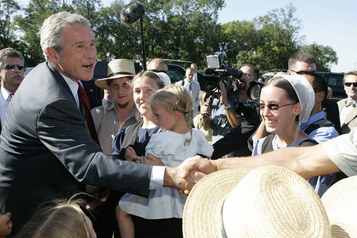 George W. Bush meets with Amish and Mennonite residents in Lancaster, Pa. Date : Wednesday, Aug. 16, 2006